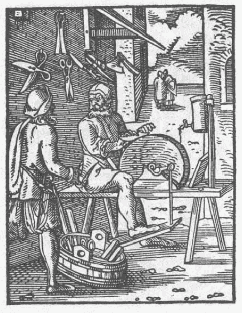 "Schleifer", a knife grinder.